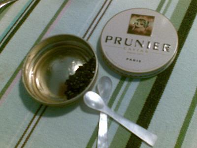 Prunier "Caviar Paris" - caviar from aquaculture Siberian Sturgeon (Acipenser baerii).